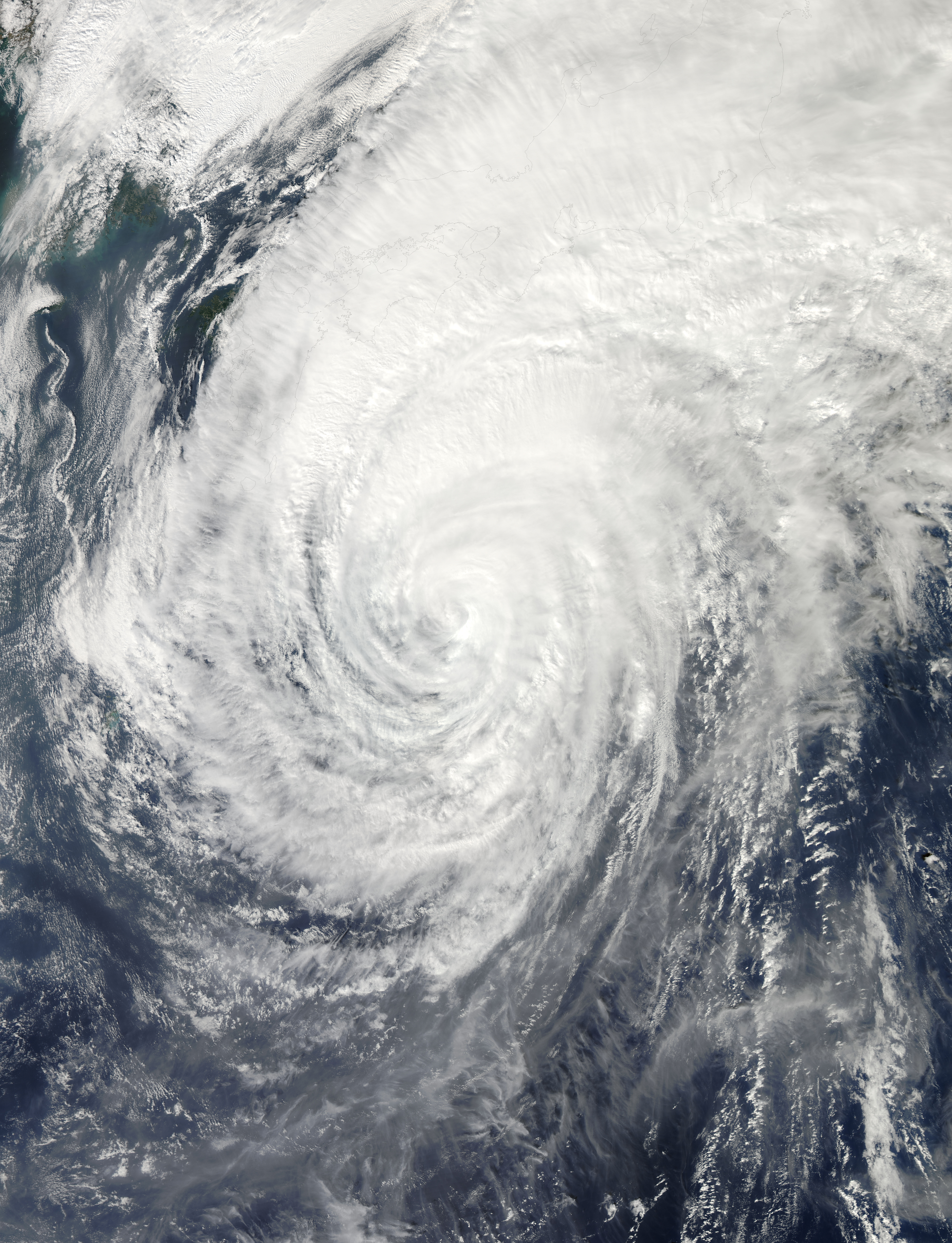 Typhoon Wipha on October 15, 2013